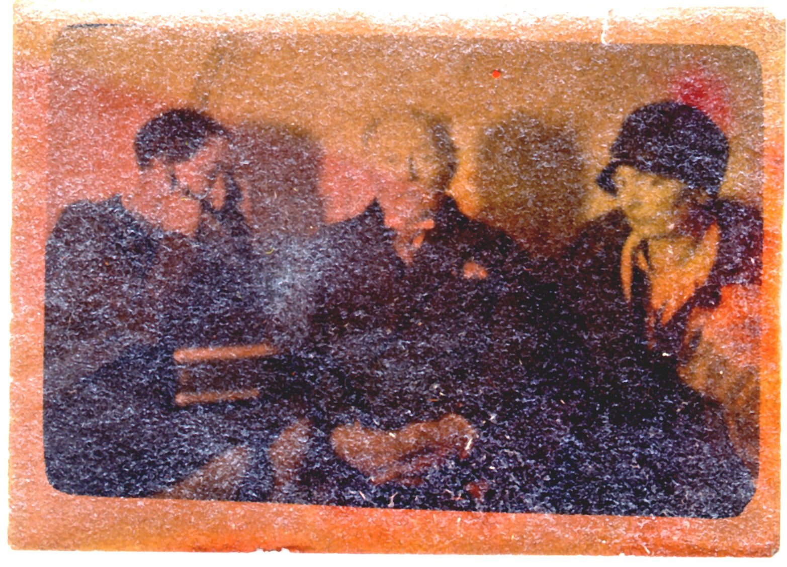 Paulette Paget à gauche, Hippolythe Boussac et une amie, Musée des Beaux-Arts de Béziers